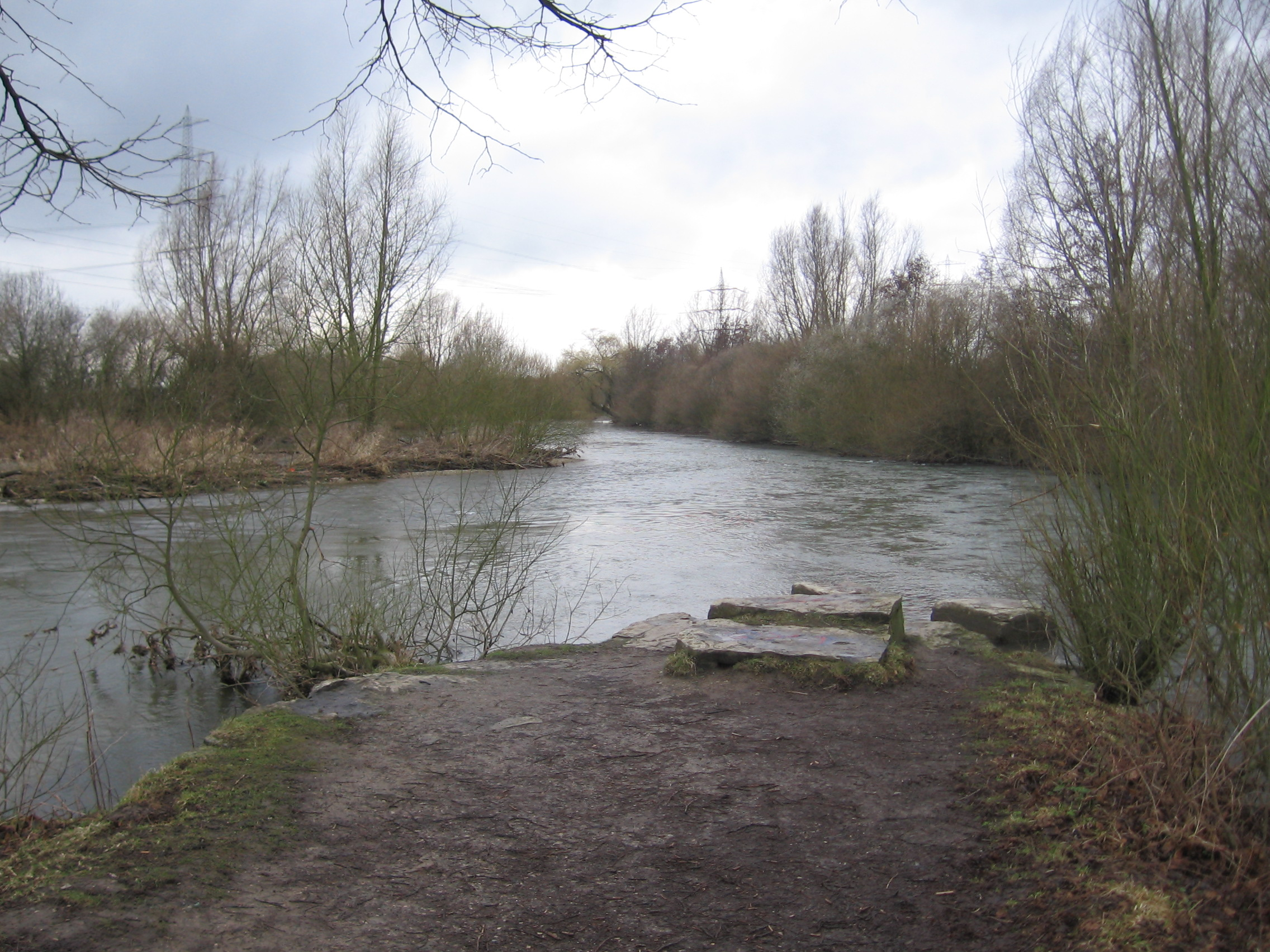 Mouth of the Alme River (left hand) into the Lippe River (right hand).